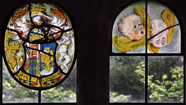 Stanley arms, St Paul's Church, Witherslack, Cumbria - Window detail. Text from: 'Witherslack', in An Inventory of the Historical Monuments in Westmorland (London, 1936), pp. 248-249[1]: "Glass: In N.E. window, two panels of heraldic glass (a) quartered arms of Charles Stanley 8th Earl of Derby and Dorothy Helen Kirkhoven his wife, with supporters, etc., (b) cartouche with the arms of St. Paul's Deanery impaling Barwick; also a cherub-head, the last probably 18th century".